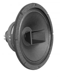 Current production version of the Altec 604 Duplex Loudspeaker by Great Plains Audio. Includes UREI-horn.